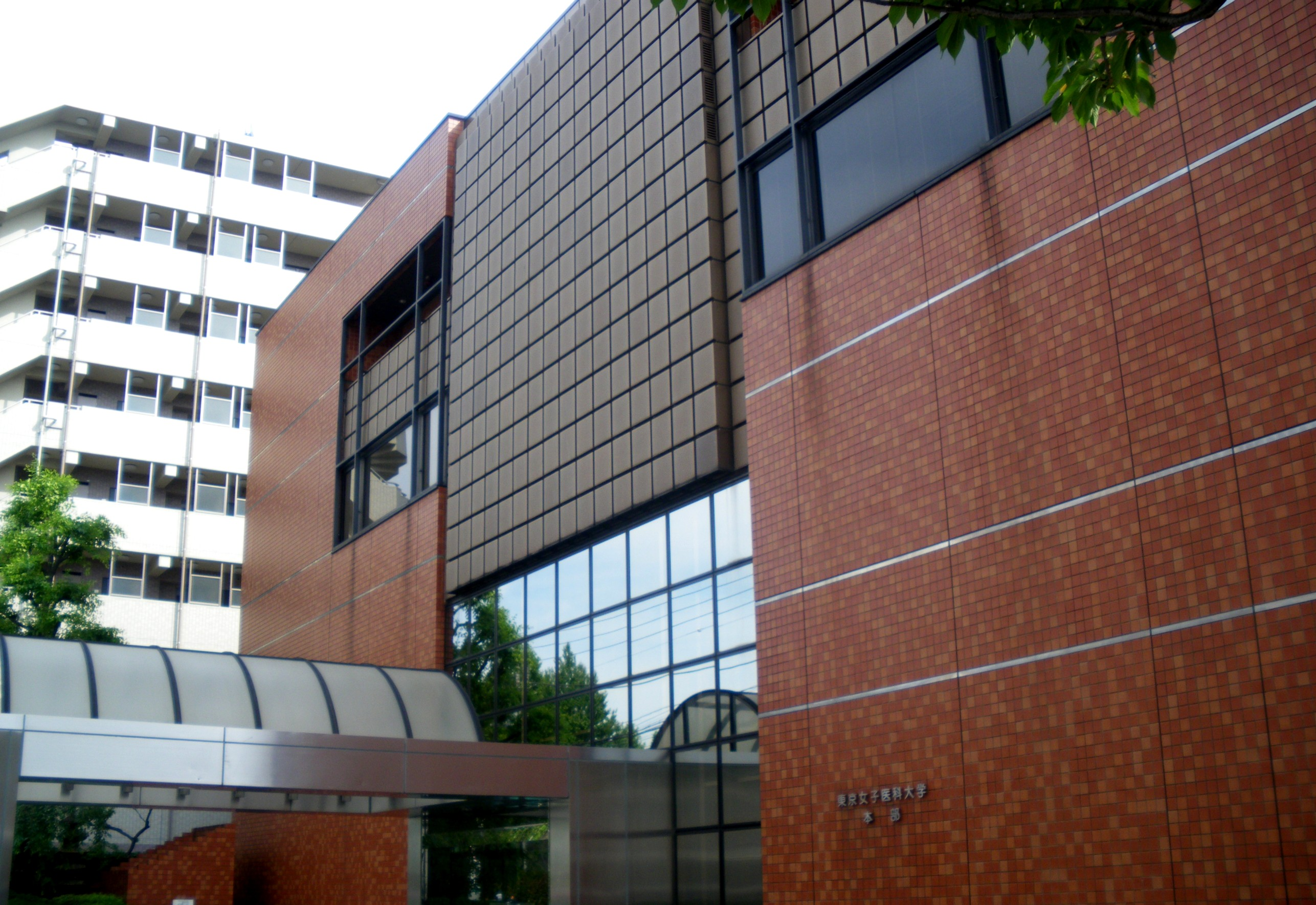 A photo of Tokyo Women's Medical University head office,Kawadacho,Shinjuku-ku,Tokyo,Japan.